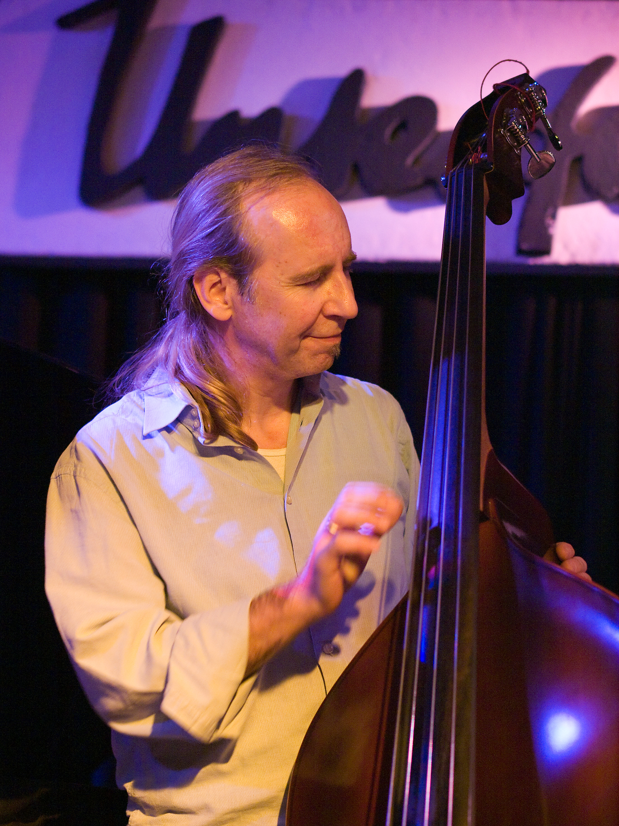 Drew Gress, jazz bassist; Picture taken in Jazz Club Unterfahrt, Munich/Bavaria